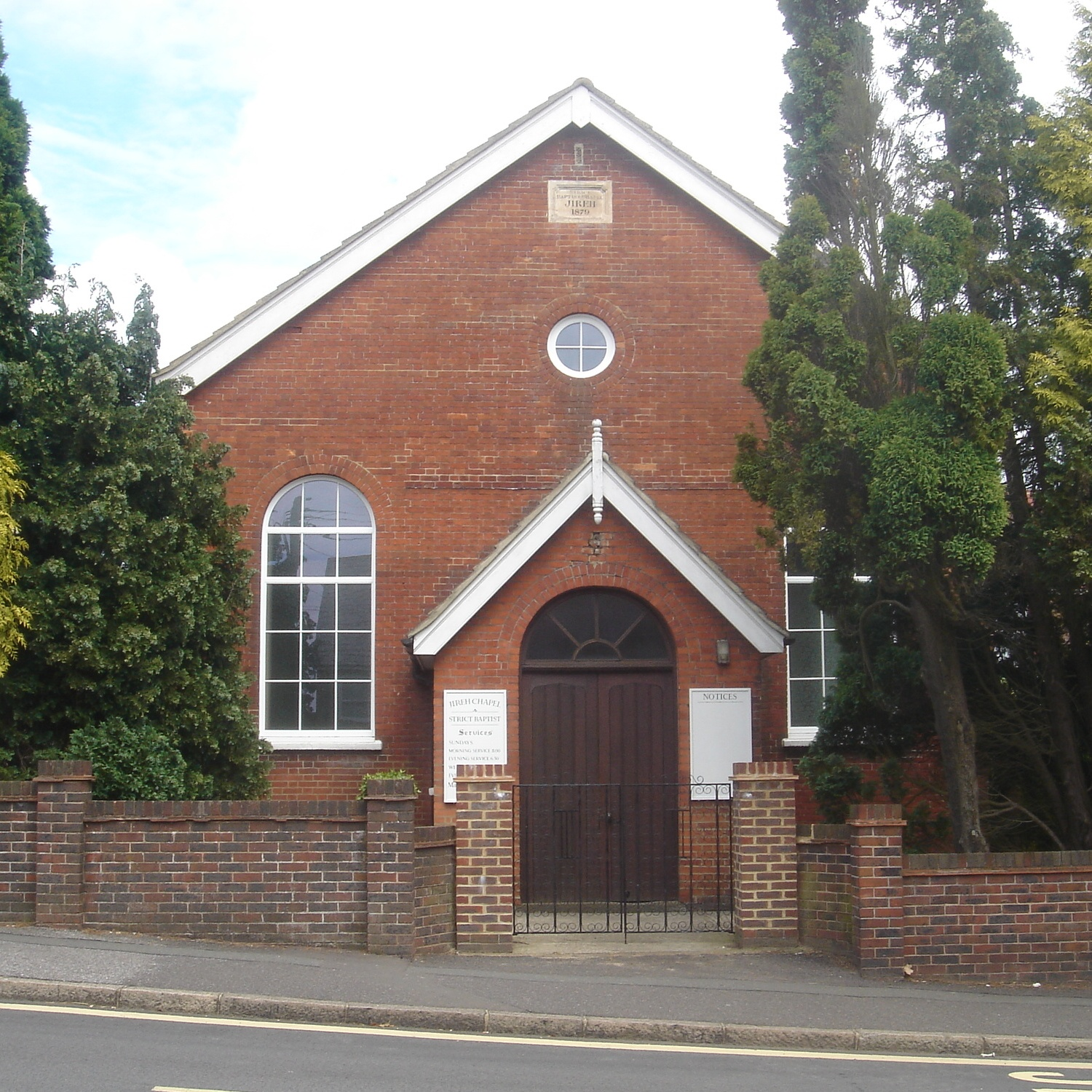 Jireh Strict Baptist Chapel, Haywards Heath, Sussex Road, Haywards Heath, District of Mid Sussex, West Sussex, England.